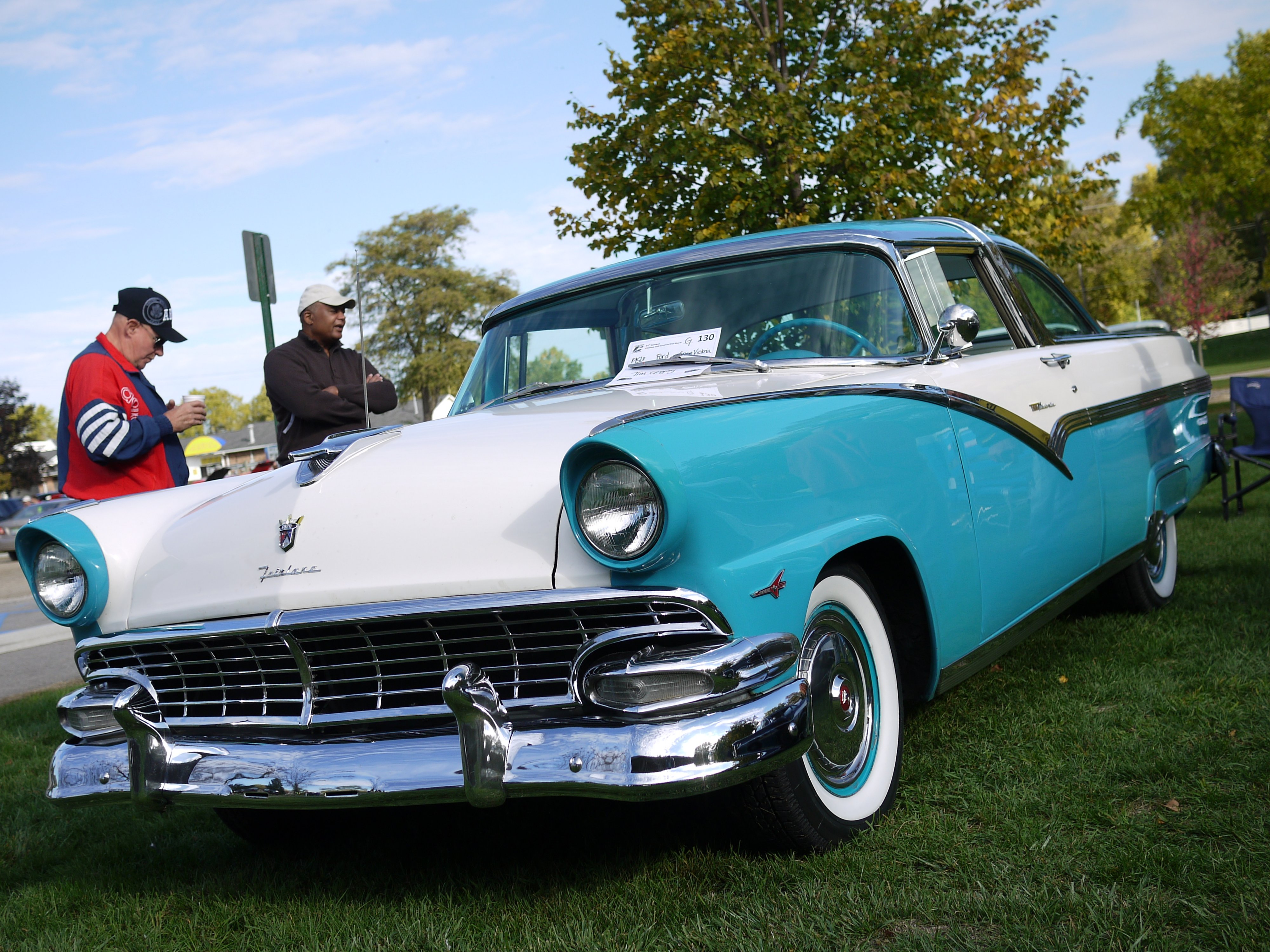 1957 Chevy Bel Air